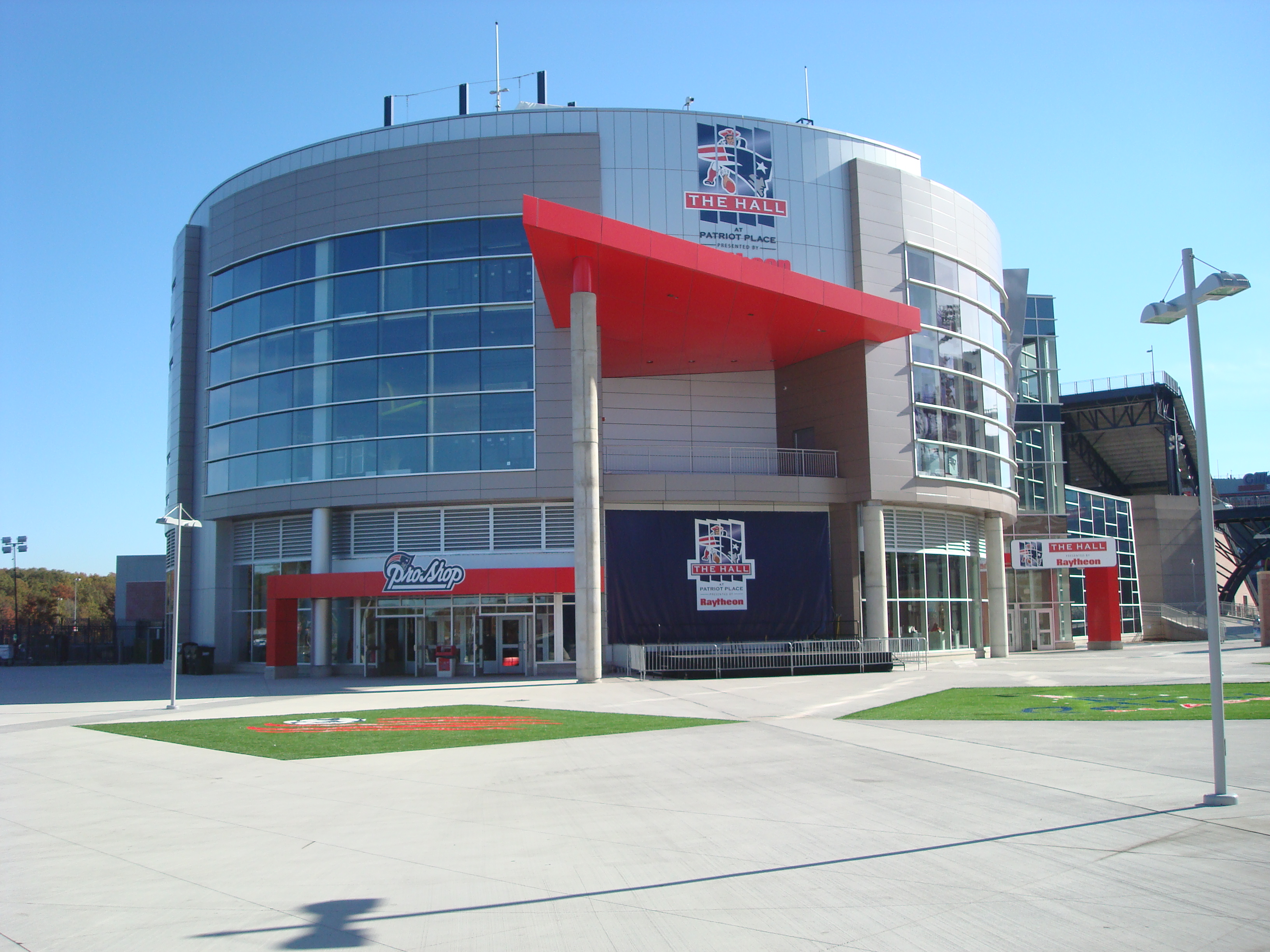 Patriots Hall of Fame located at Patriots Place in Foxboro, MA.